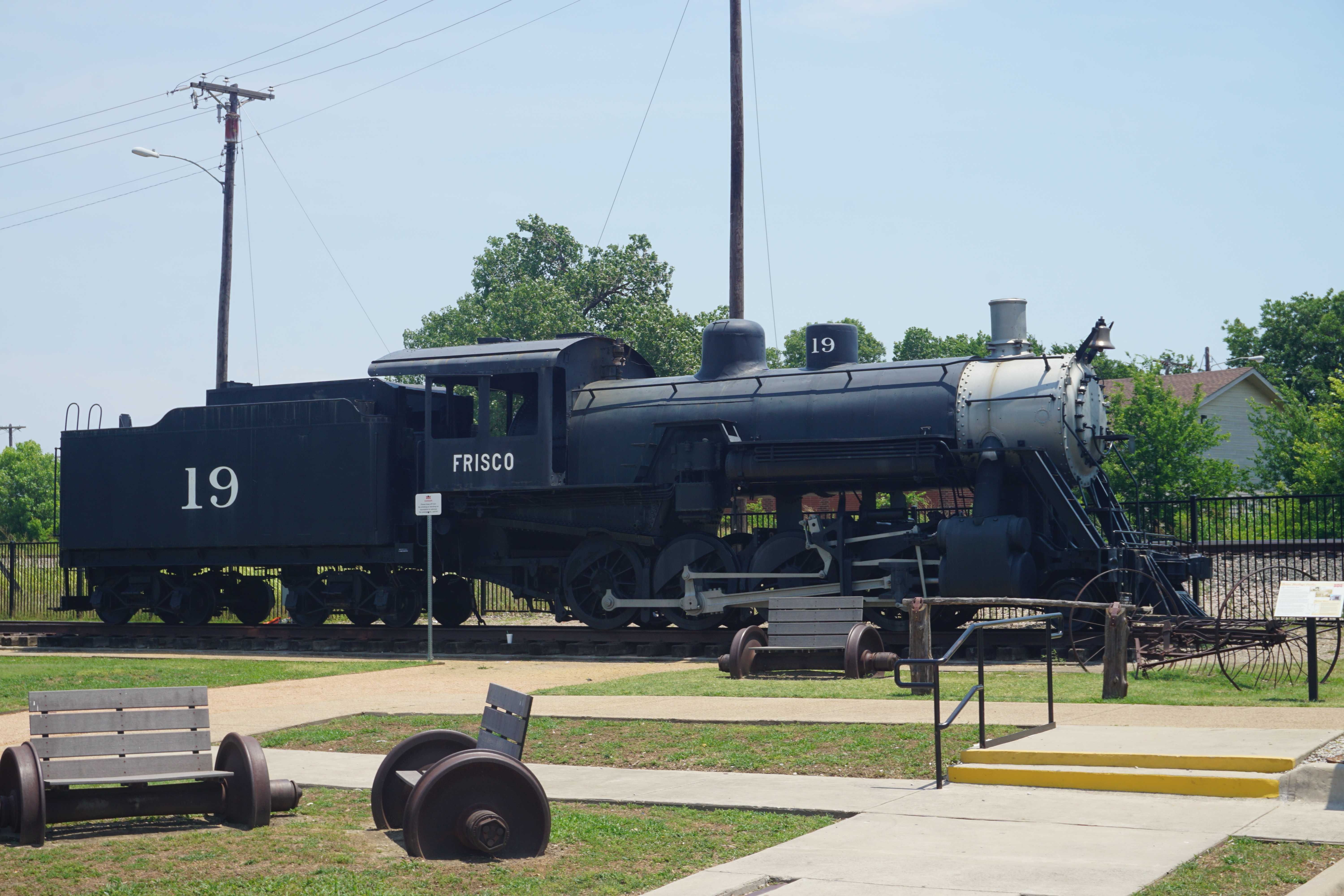 Lake Superior & Ishpeming ALCO 2-8-0 No. 19 at the Frisco Heritage Center in Frisco, Texas (United States).